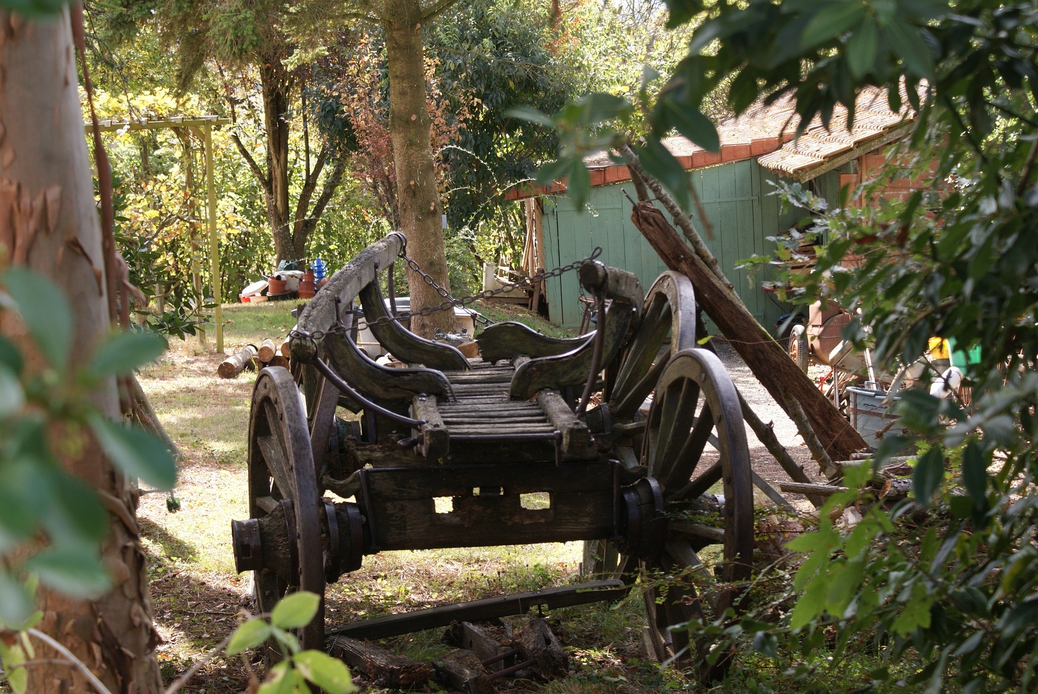 Old wagon in Monties, Gers, France.